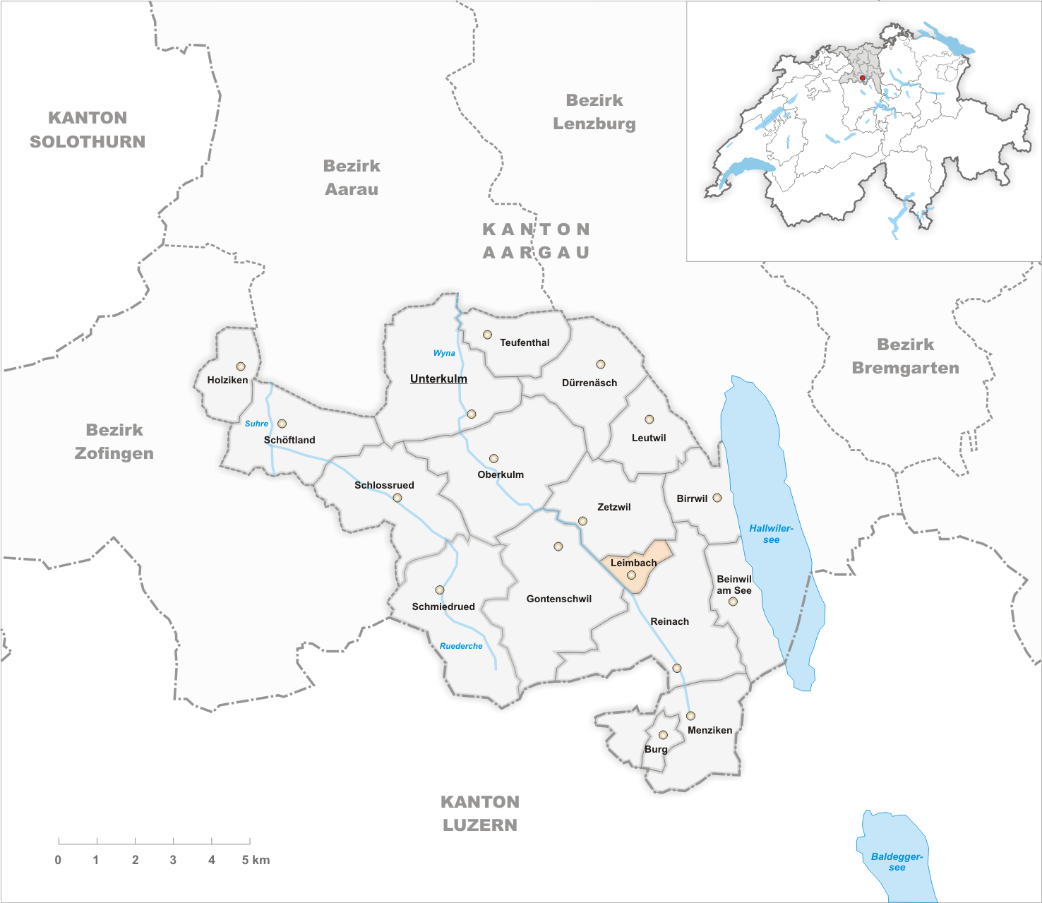 Municipality Leimbach